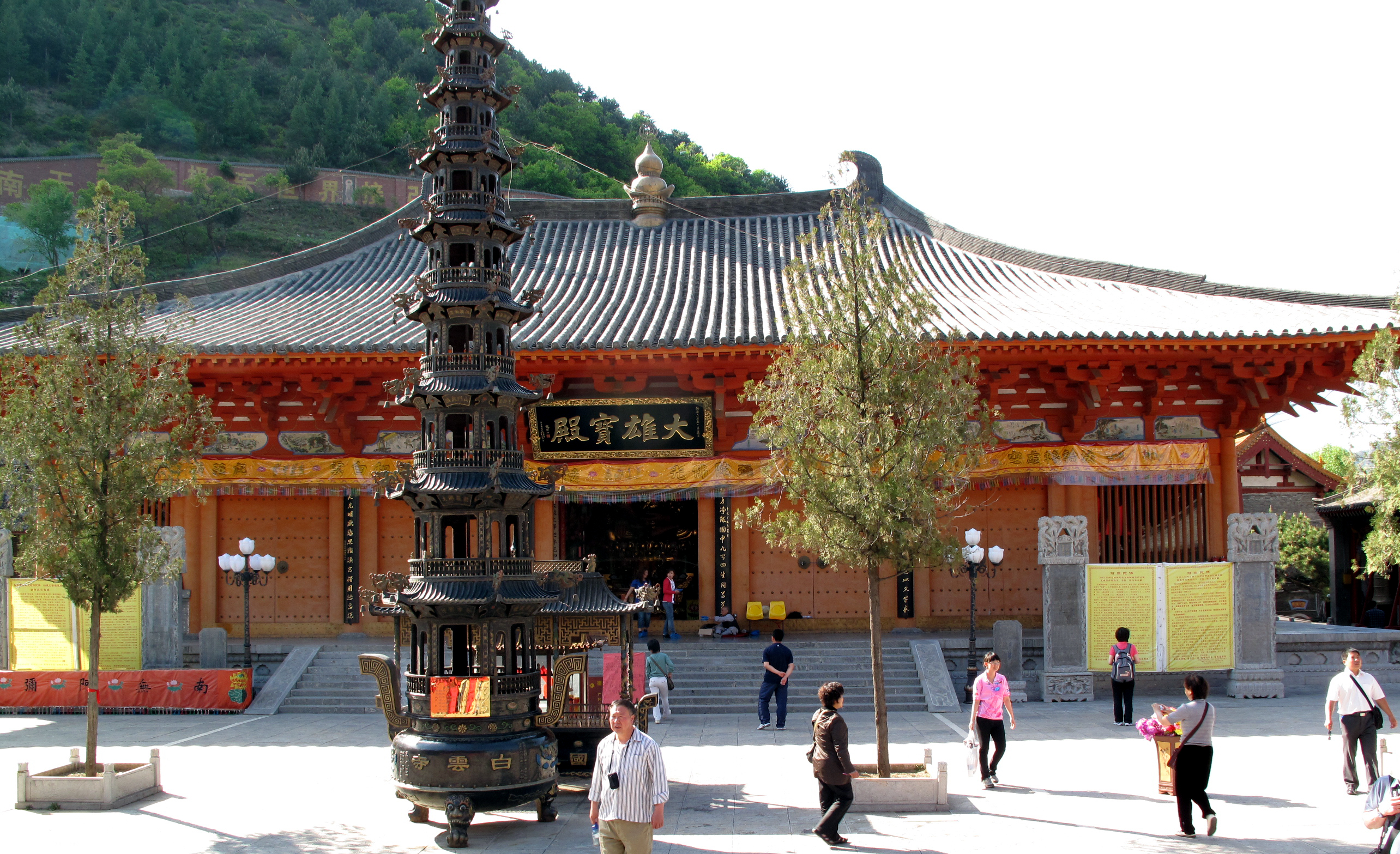 Baiyun Si, on Wutai Shan Baiyun's Mahavira Hall stretches out for an imposing seven bays in length. This is the main hall of the temple; it is built in line with the entrance hall on the opposite side of the courtyard.